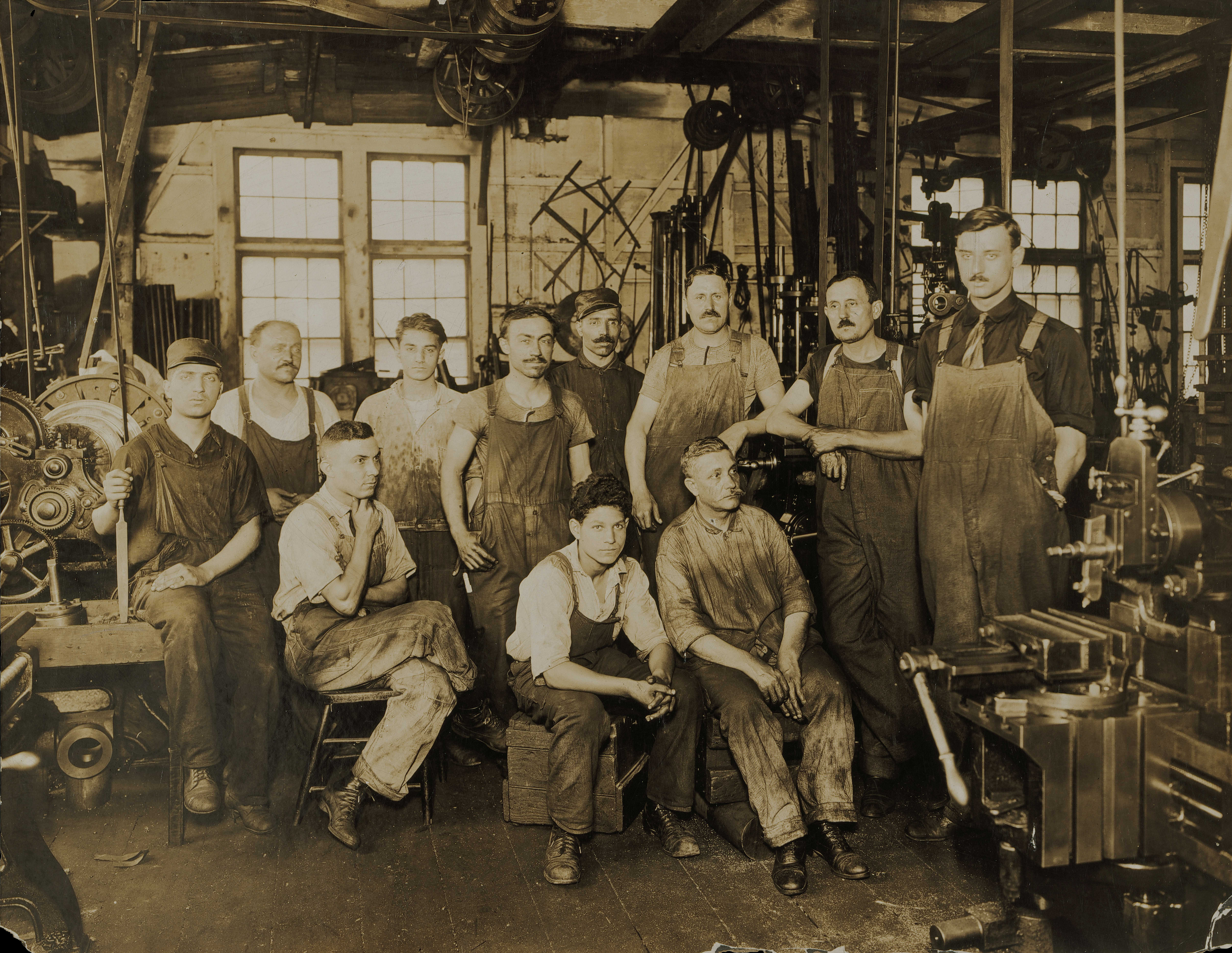 I. DeFrancisci & Son, 219 Morgan Avenue, Brooklyn, New York. I. DeFrancisci & Son was formed in 1914 by Ignazio DeFrancisci and the company made industrial macaroni machines. All the machinery in this shop that built the macaroni machines was run off a pulley/belt system located on the ceiling, which you can see in the picture. The belt system was powered by a single generator and you attach a belt from the system on the ceiling to the machine you want to run (see machine on far left for an example). This was state of the art for 1917. See File:I. DeFrancisci & Son Preparatory Dough Mixer for macaroni.jpg and File:I. DeFrancisci & Son Hydraulic Macaroni Press.jpg for examples of machines built in this shop. Standing right to left: Joseph DeFrancisci (tall man), Ignazio DeFrancisci & Cosimo Alati Sitting right to left: unknown, Dominic LoPardo & Joseph Bontempi (with hand under chin)